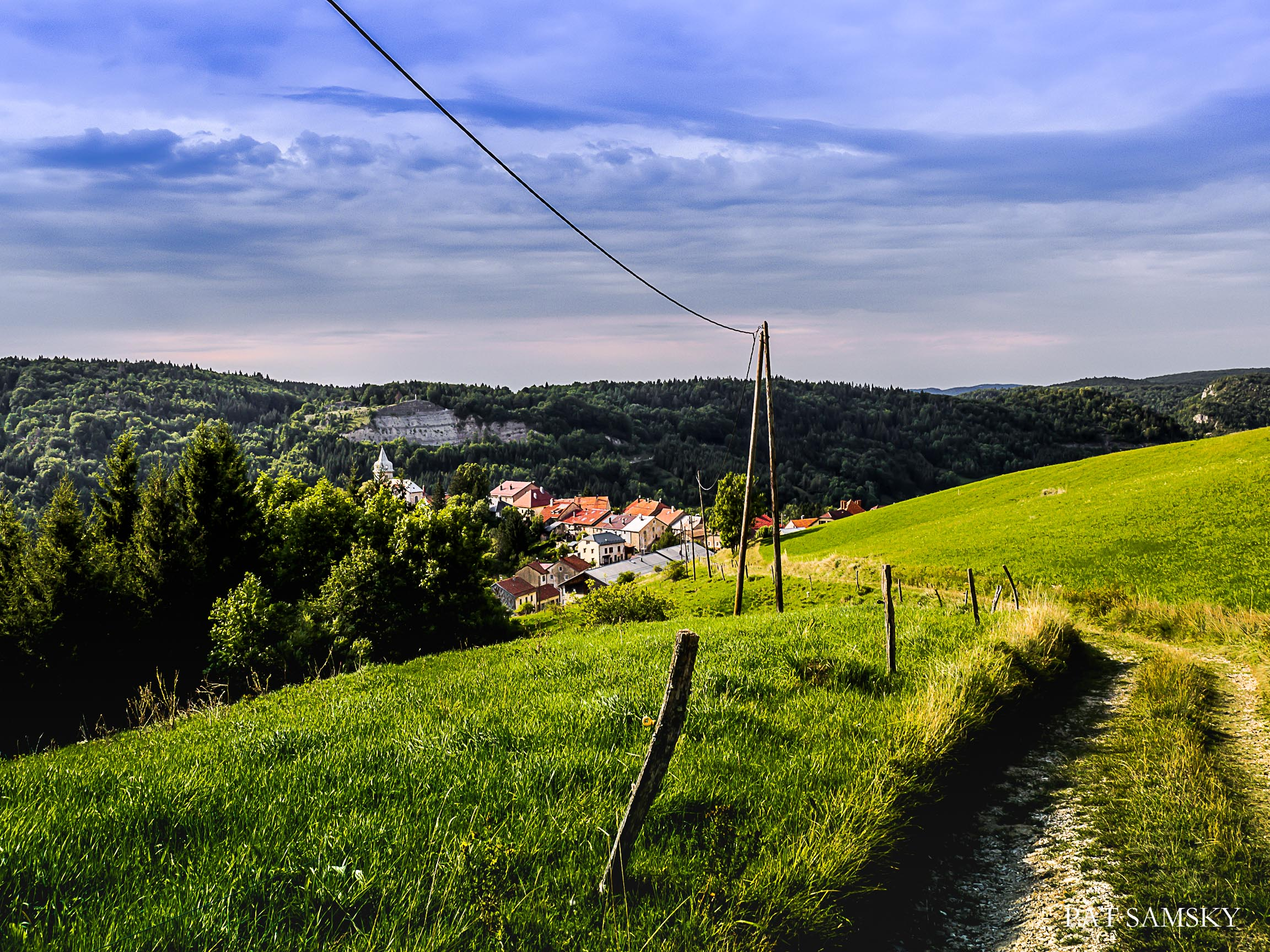 Les Bouchoux